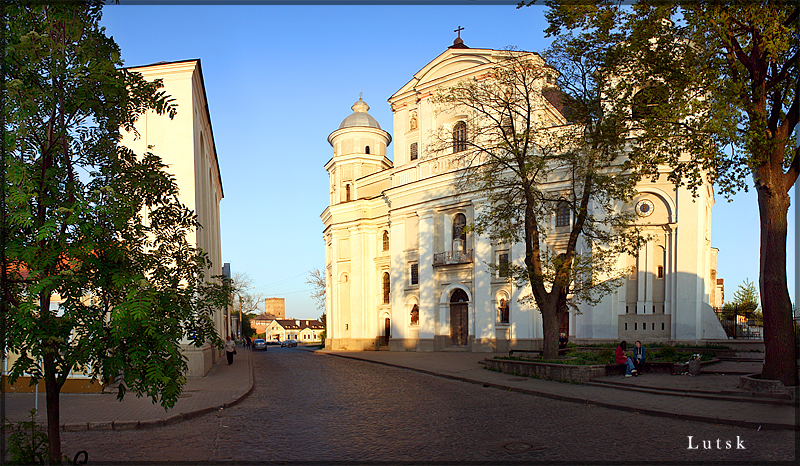 St. Peter and Paul cathedral, Lutsk